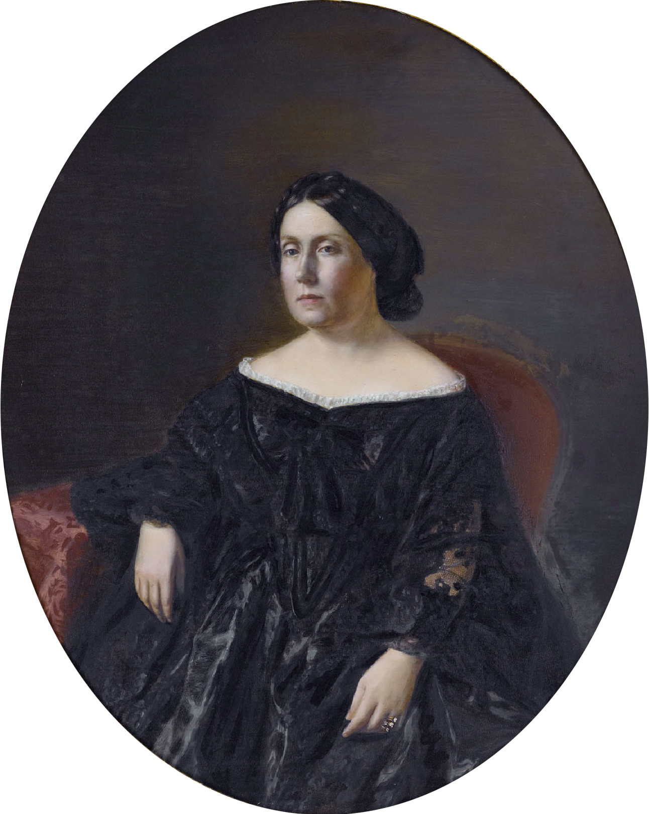 Princess Maria Carolina of Bourbon-Two Sicilies (1820–1861), Countess of Montemolin